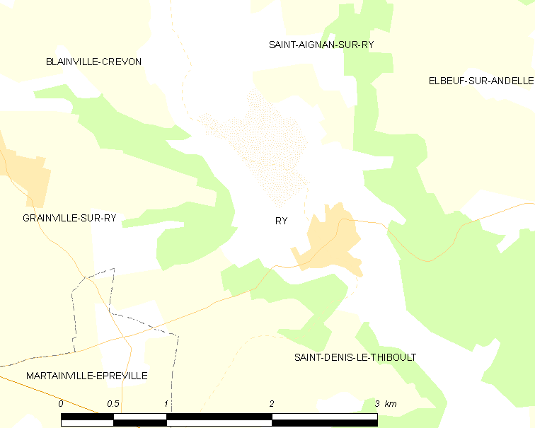 Map of French municipality Ry